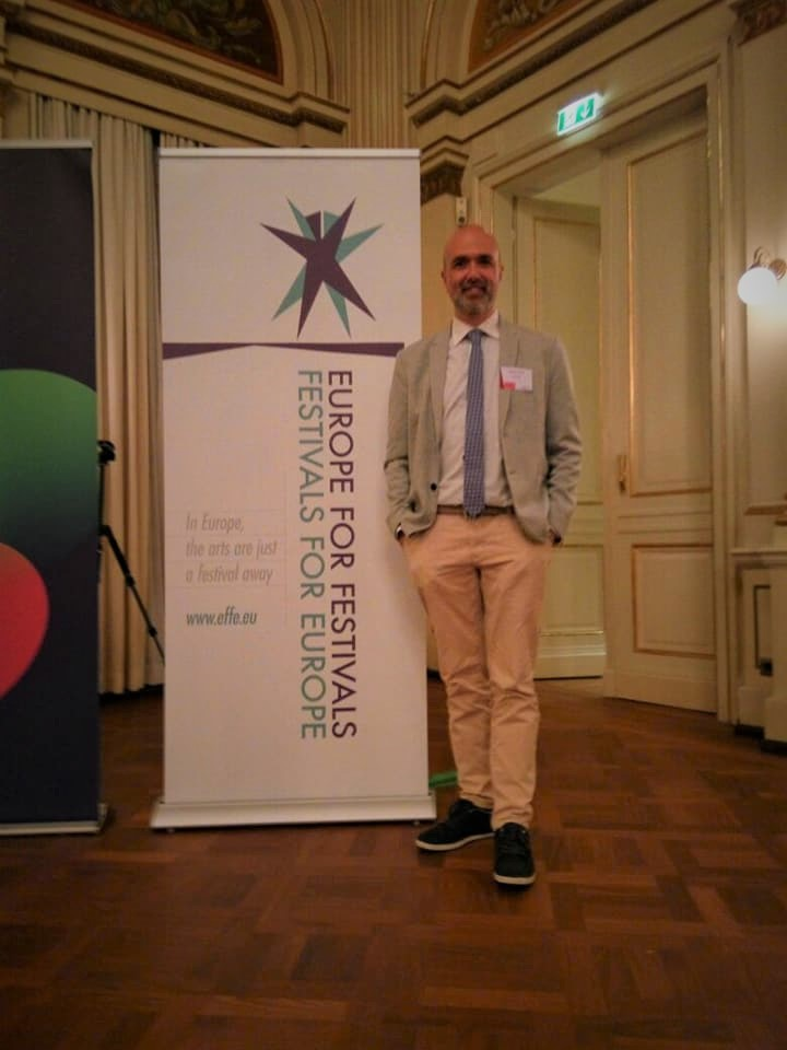 Prof. Scorzelli in Paris for Festivalflorio and Effe Label